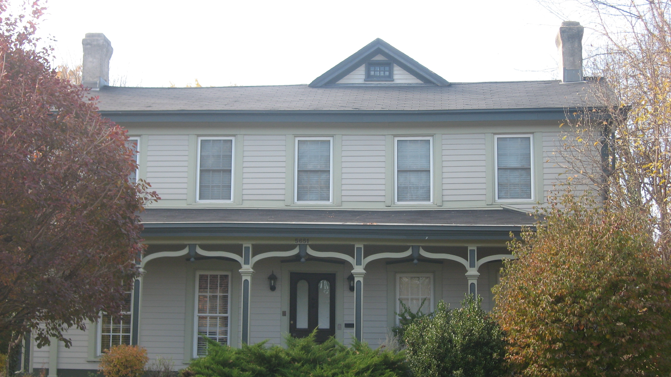 Front of the Freeman Grant Cary Pleasant Hill Academy, located at 5651 Hamilton Avenue (U.S. Route 127) in Cincinnati, Ohio, United States. Built in 1832, it is listed on the National Register of Historic Places.